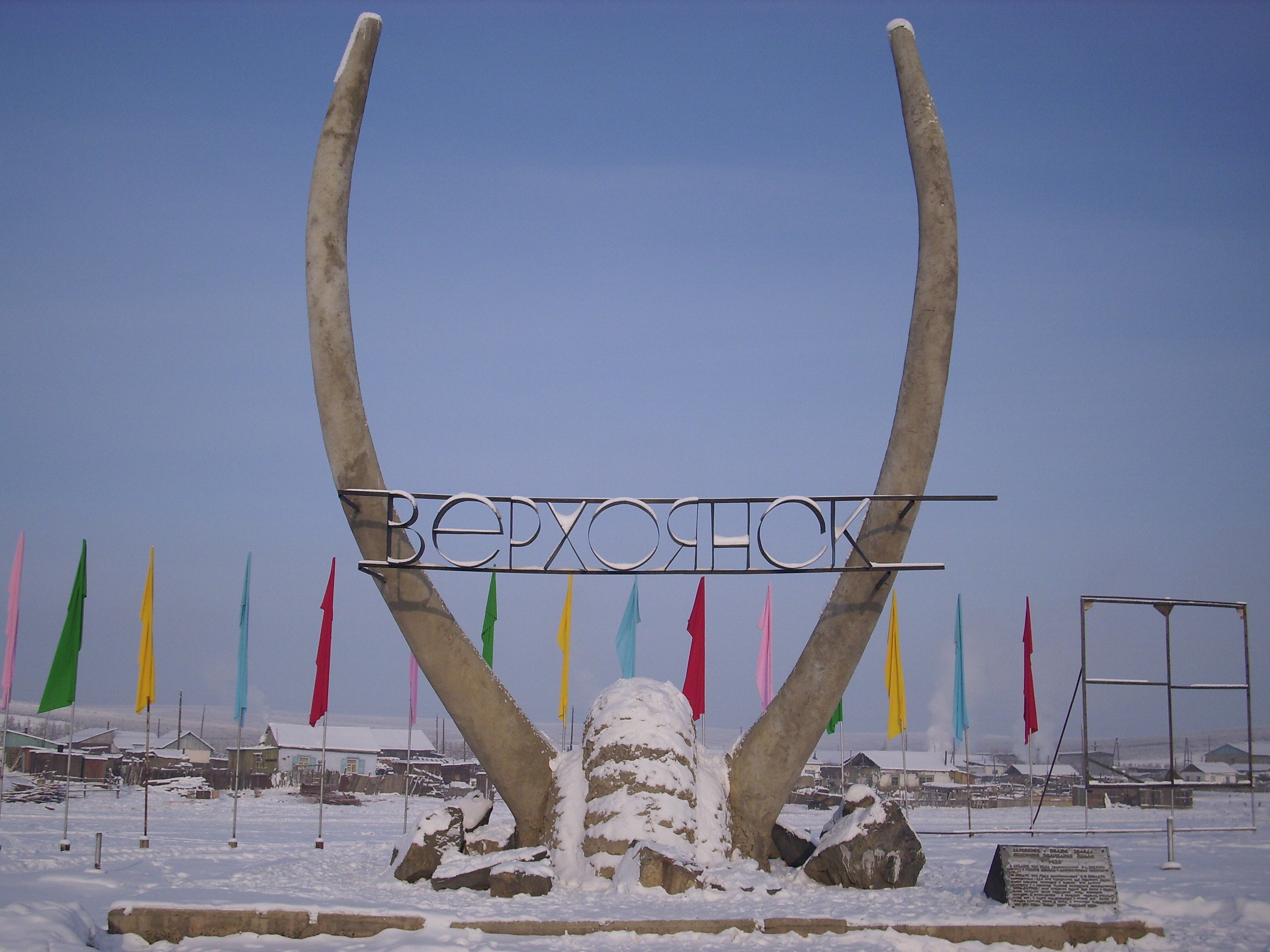 Polyus Kholoda, Pole of Cold of the northern hemisphere, monument at the entrance of Verkhoyansk